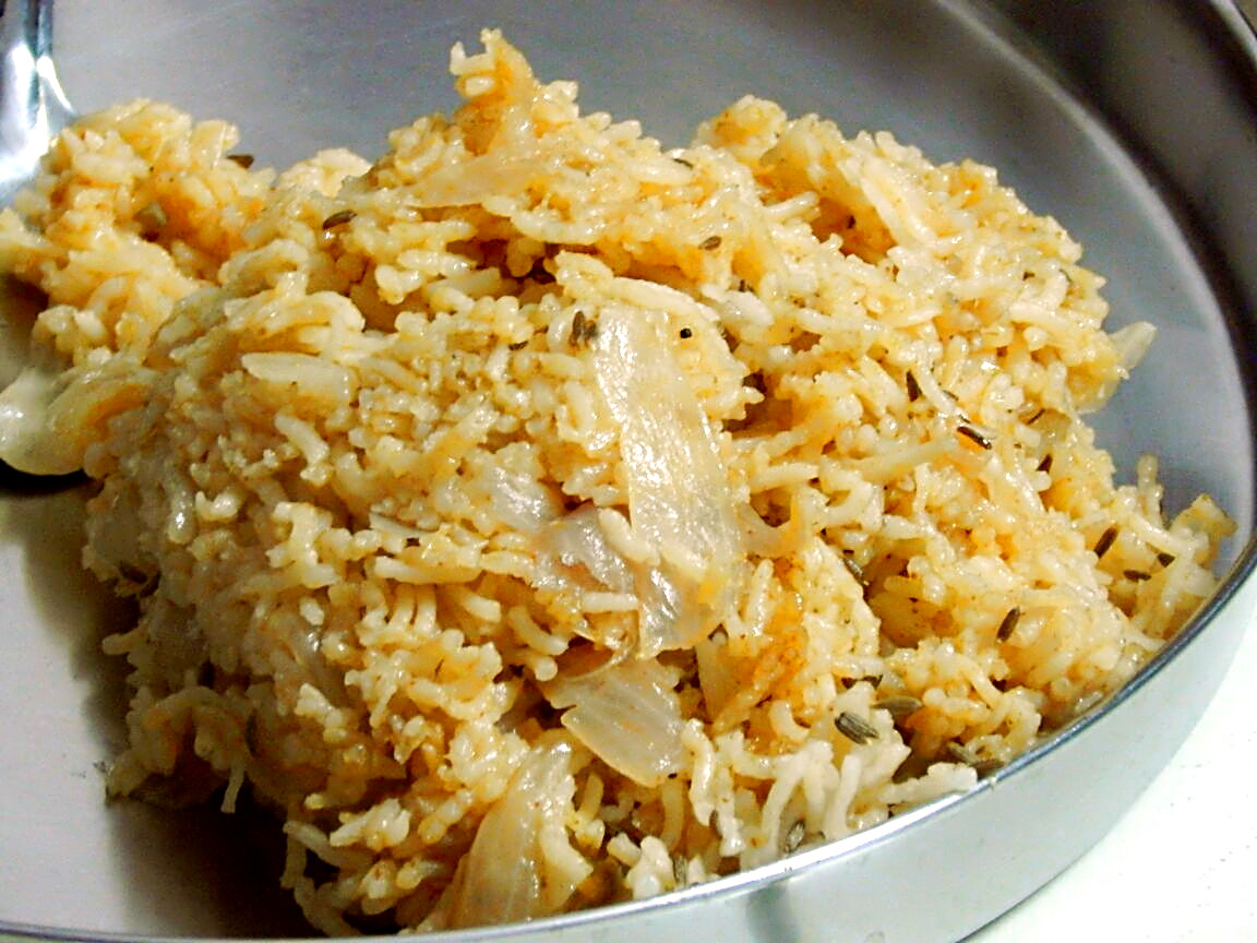 Sindhi Pulao is one of the most common and delicious Sindhi dish.